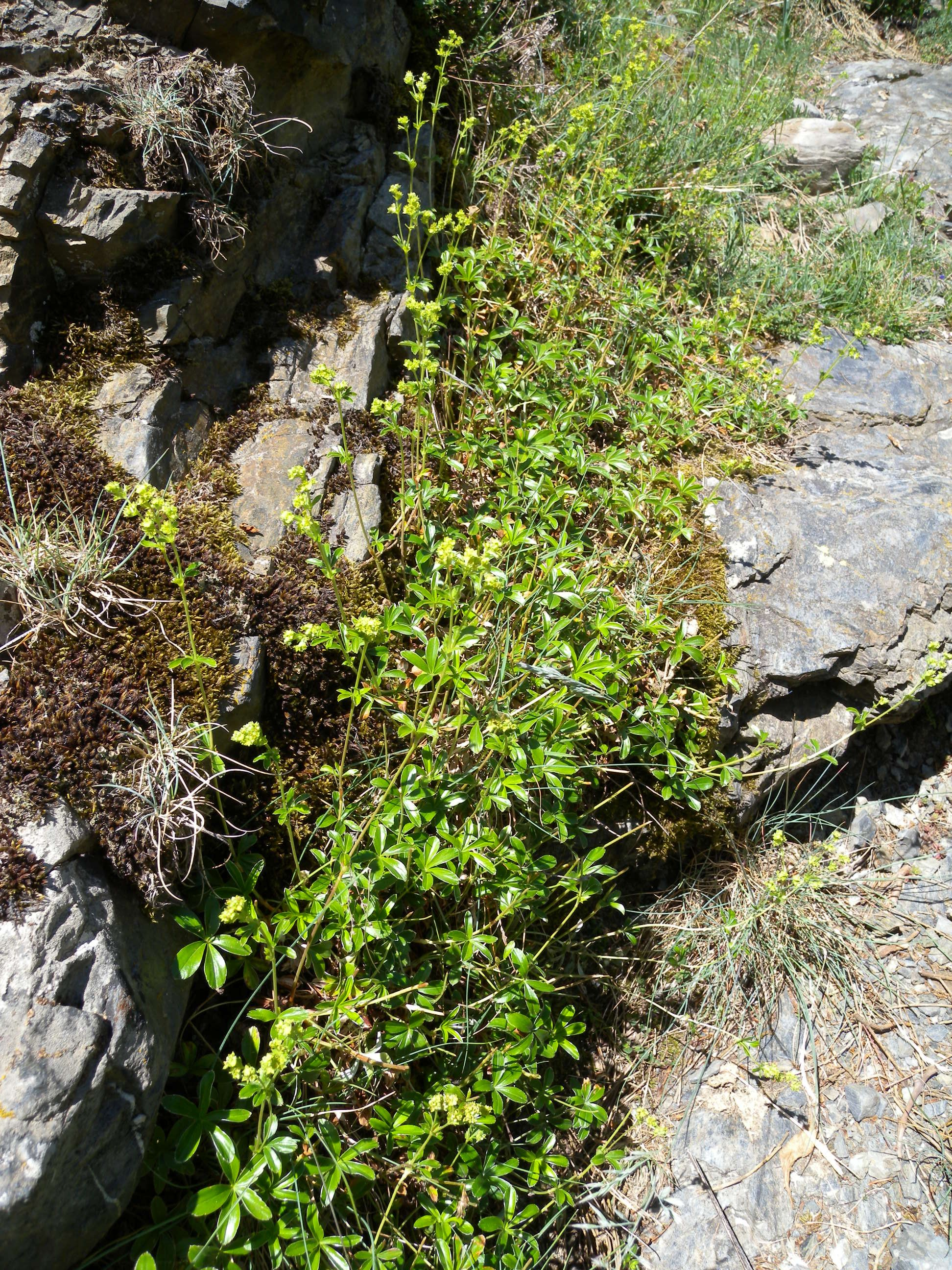 Alchemilla saxatilis, Setcases, Catalonia, Spain